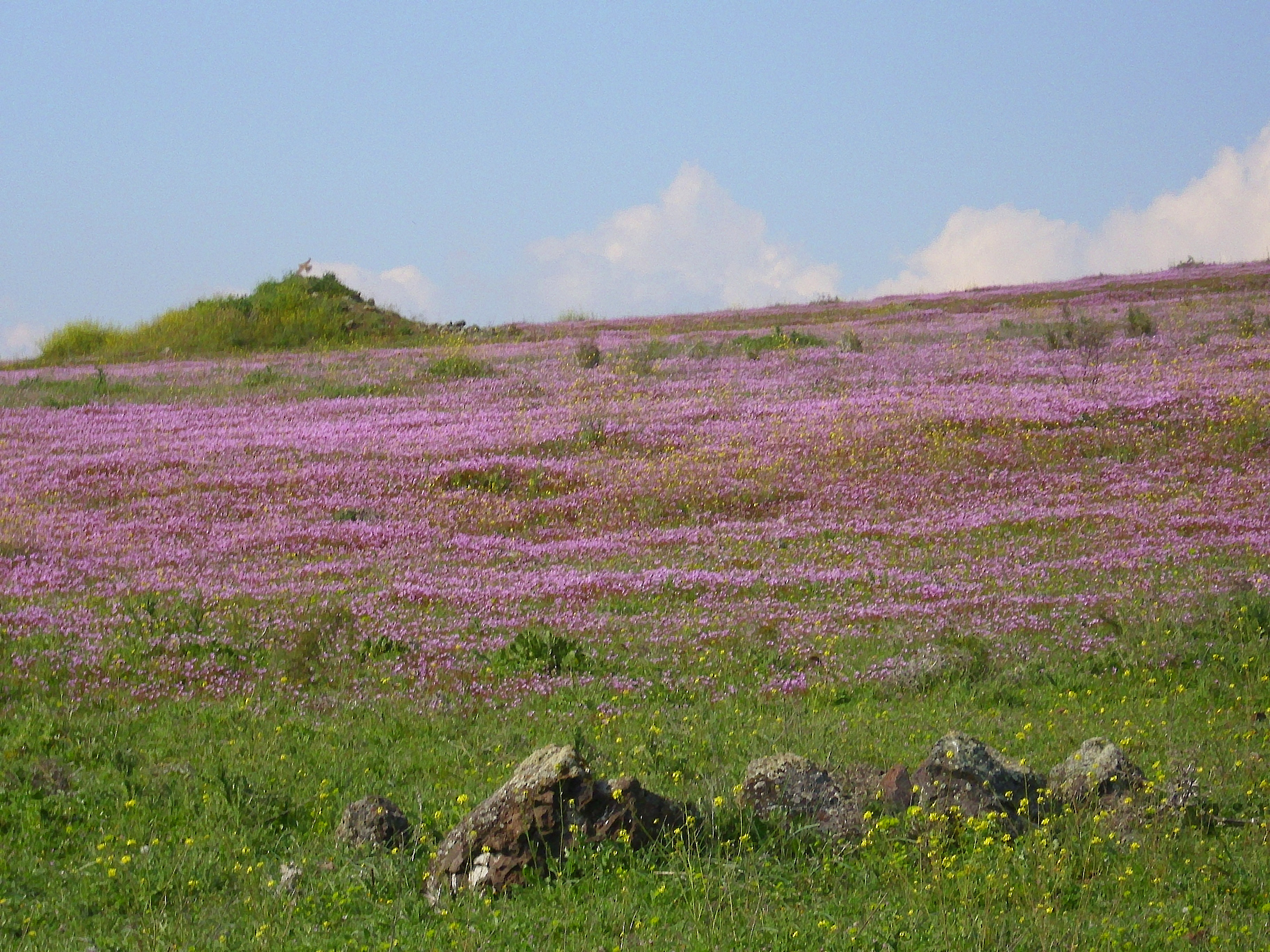 Erodium primulaceum flowers spot Campo de Calatrava, Spain